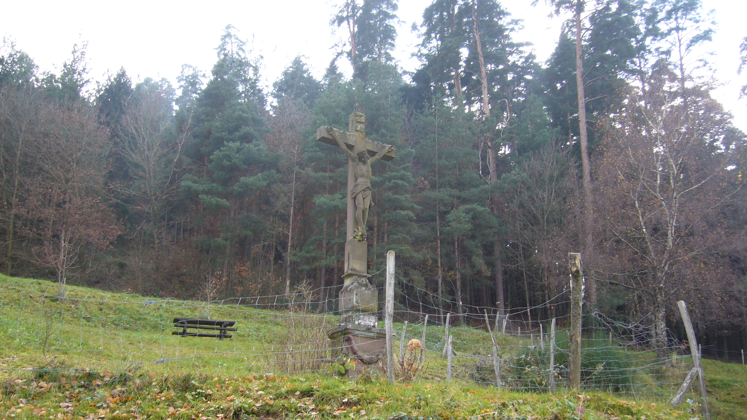 Calvaire Fouchy 007.JPG